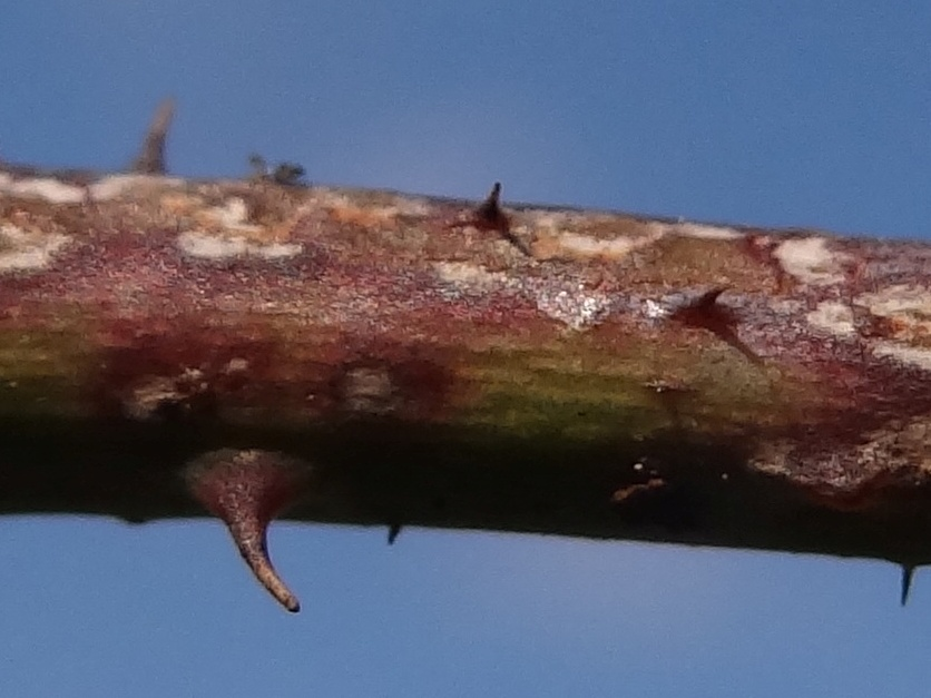 Elsinoë veneta on Rubus sp. (location: Poland, Żegocina)